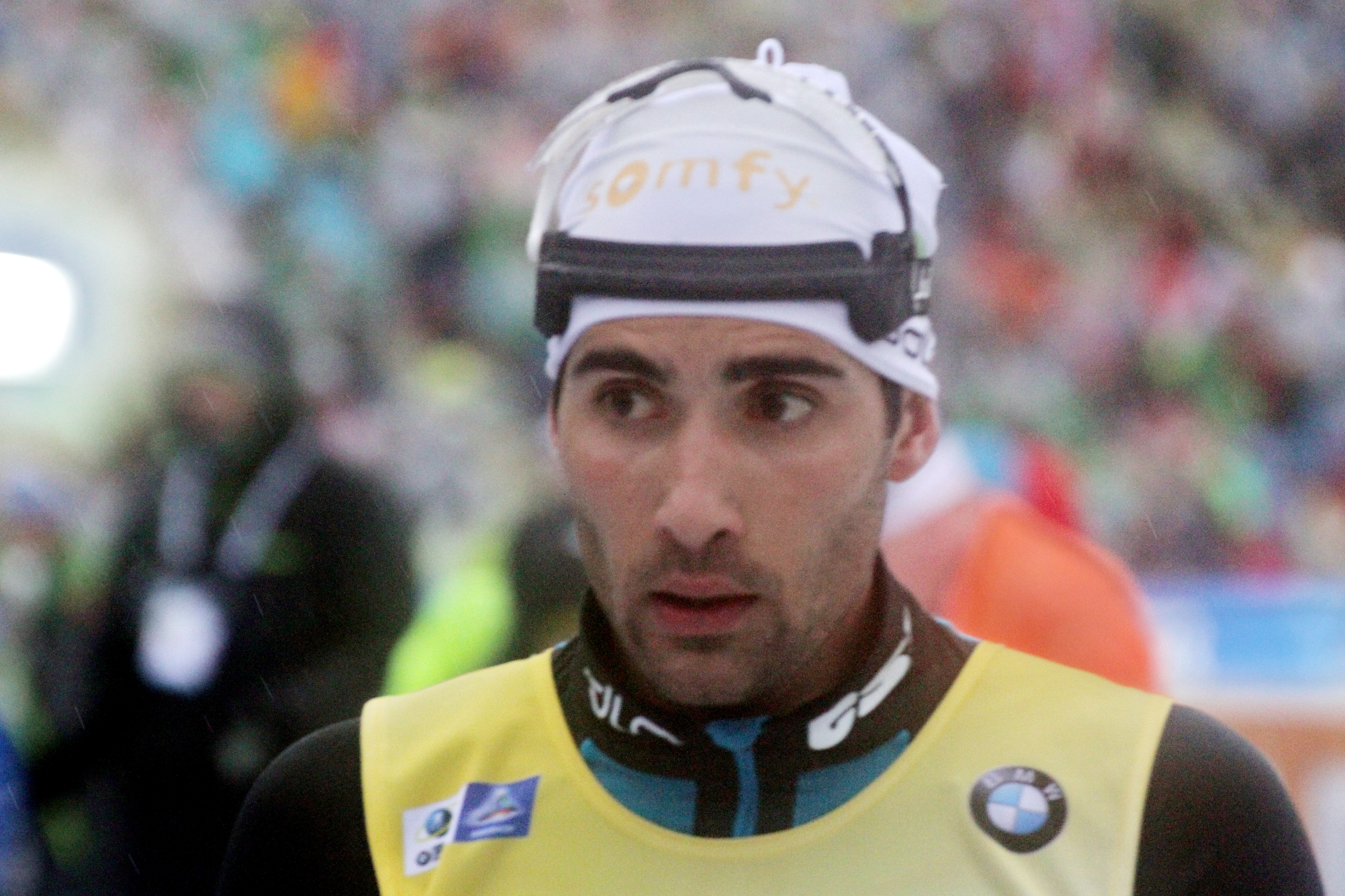 2018 Oberhof Biathlon World Cup - Sprint Men